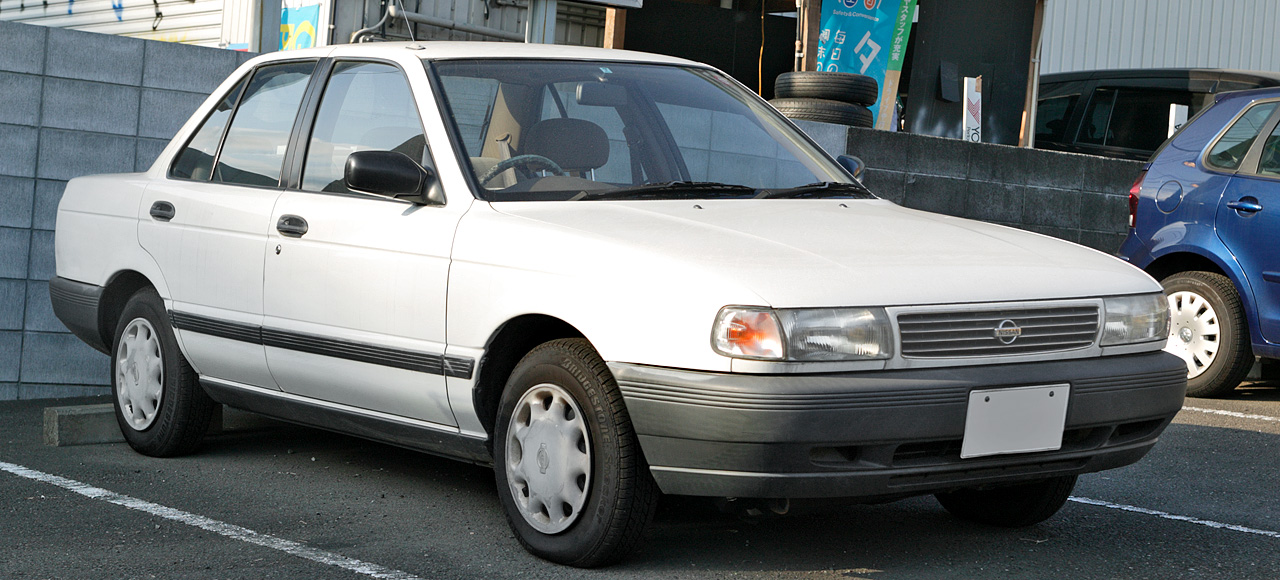 Seventh generation Nissan Sunny Sedan 1.3 JX ( B13 )